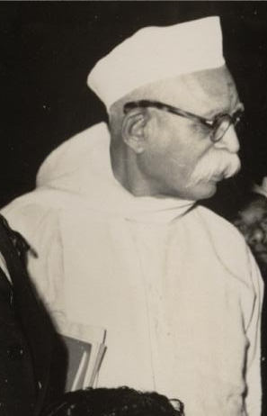 Ravishankar Shukla, an Indian politician and the first Chief Minister of Madhya Pradesh.